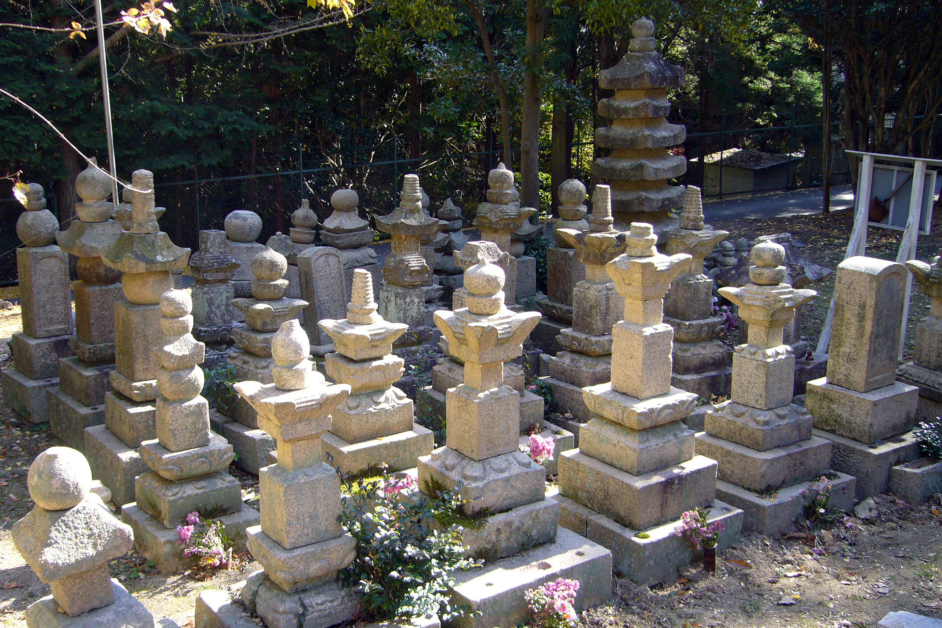 Jurinji in Nishinomiya, Hyogo prefecture, Japan